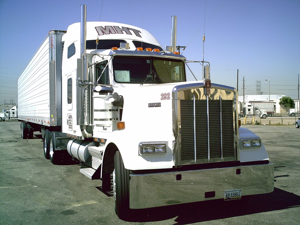 Kenworth near Sears Boyle Heights , Los Angeles.